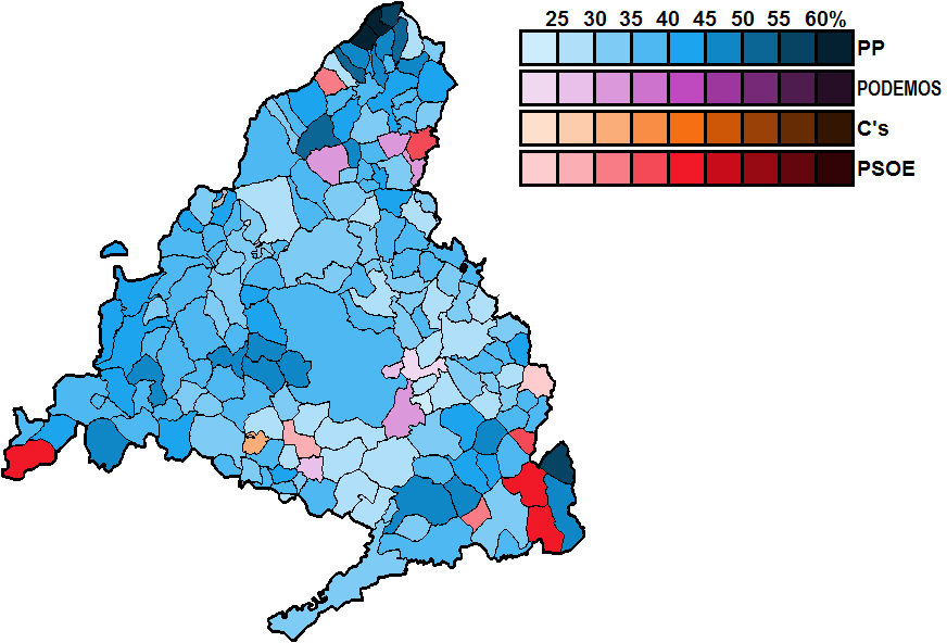 Most-voted party in Madrid municipalities, showing vote share obtained, in the Spanish general election, 2015.